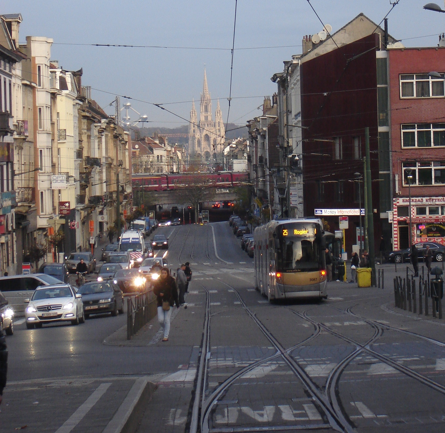 Liedts sqare in Schaarbeek, Brussels Capital Region.